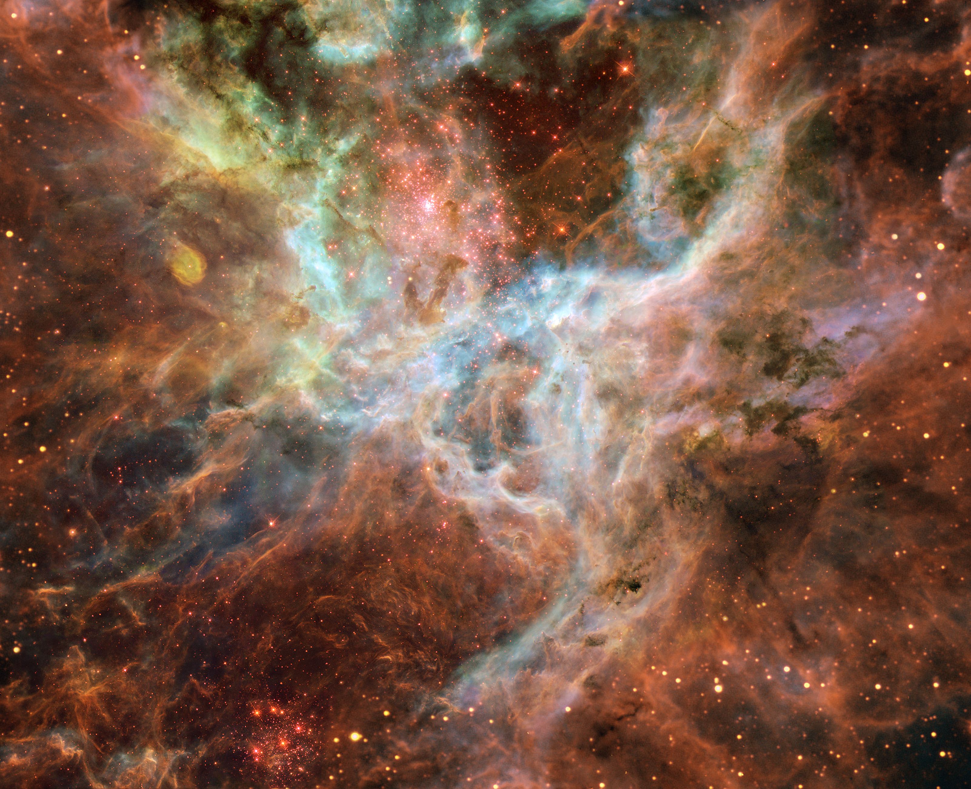 Central portion of the Tarantula Nebula. "This mosaic of the Tarantula Nebula consists of images from the NASA/ESA Hubble Space Telescope’s Wide Field and Planetary Camera 2 (WFPC2) and was created by 23 year old amateur astronomer Danny LaCrue. ... Additional image processing was done by the Hubble European Space Agency Information Centre."